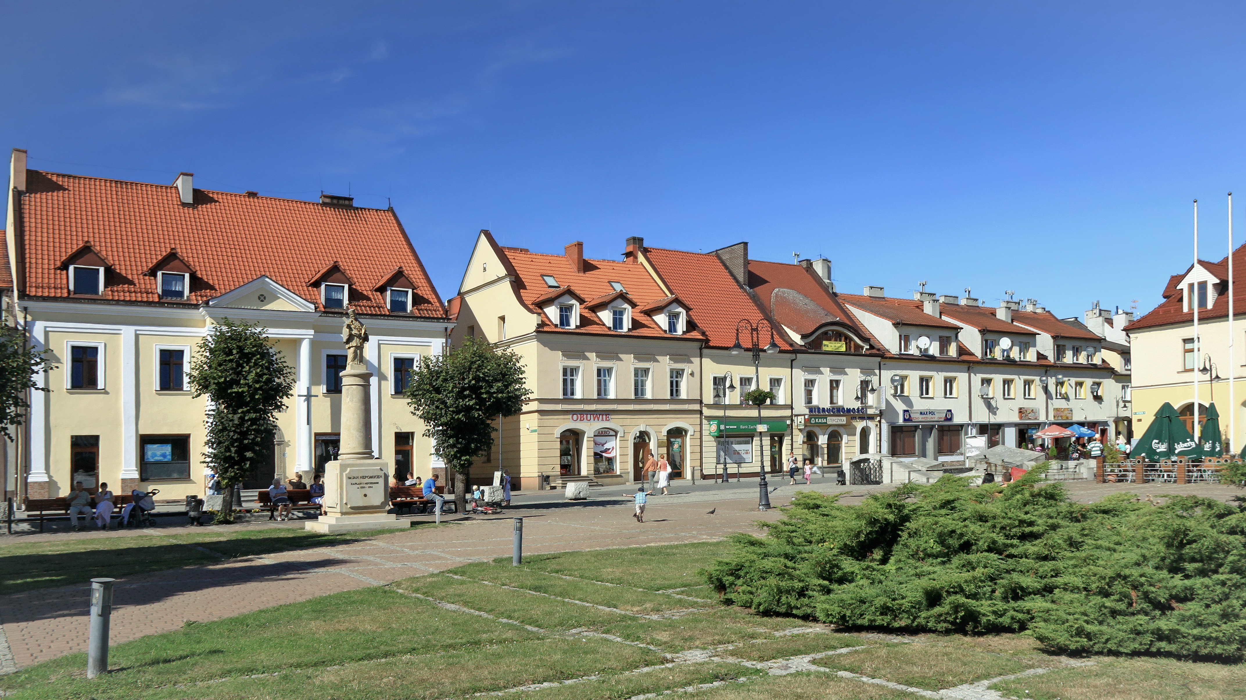 Żory, market square